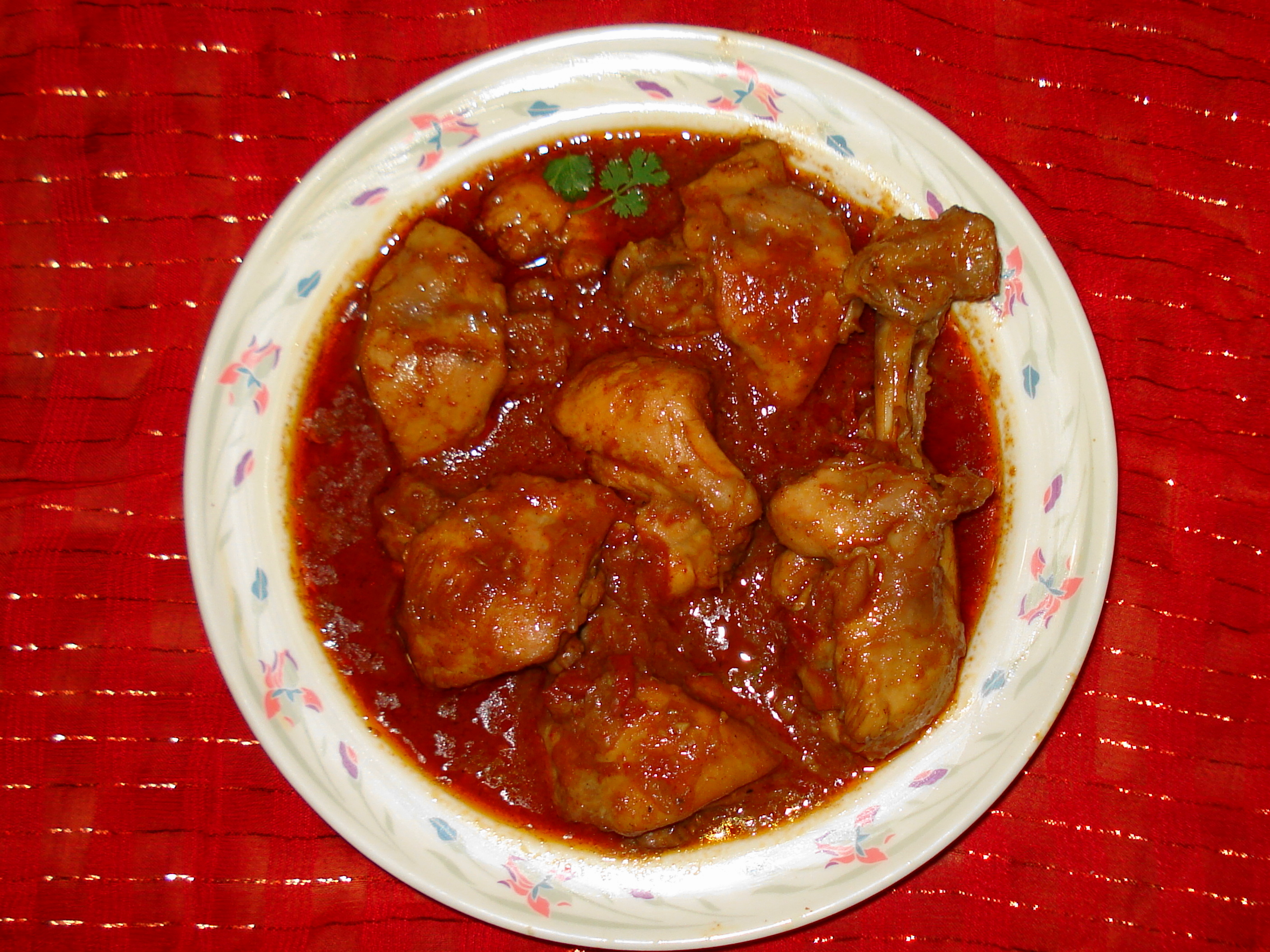 Murghi ka salan